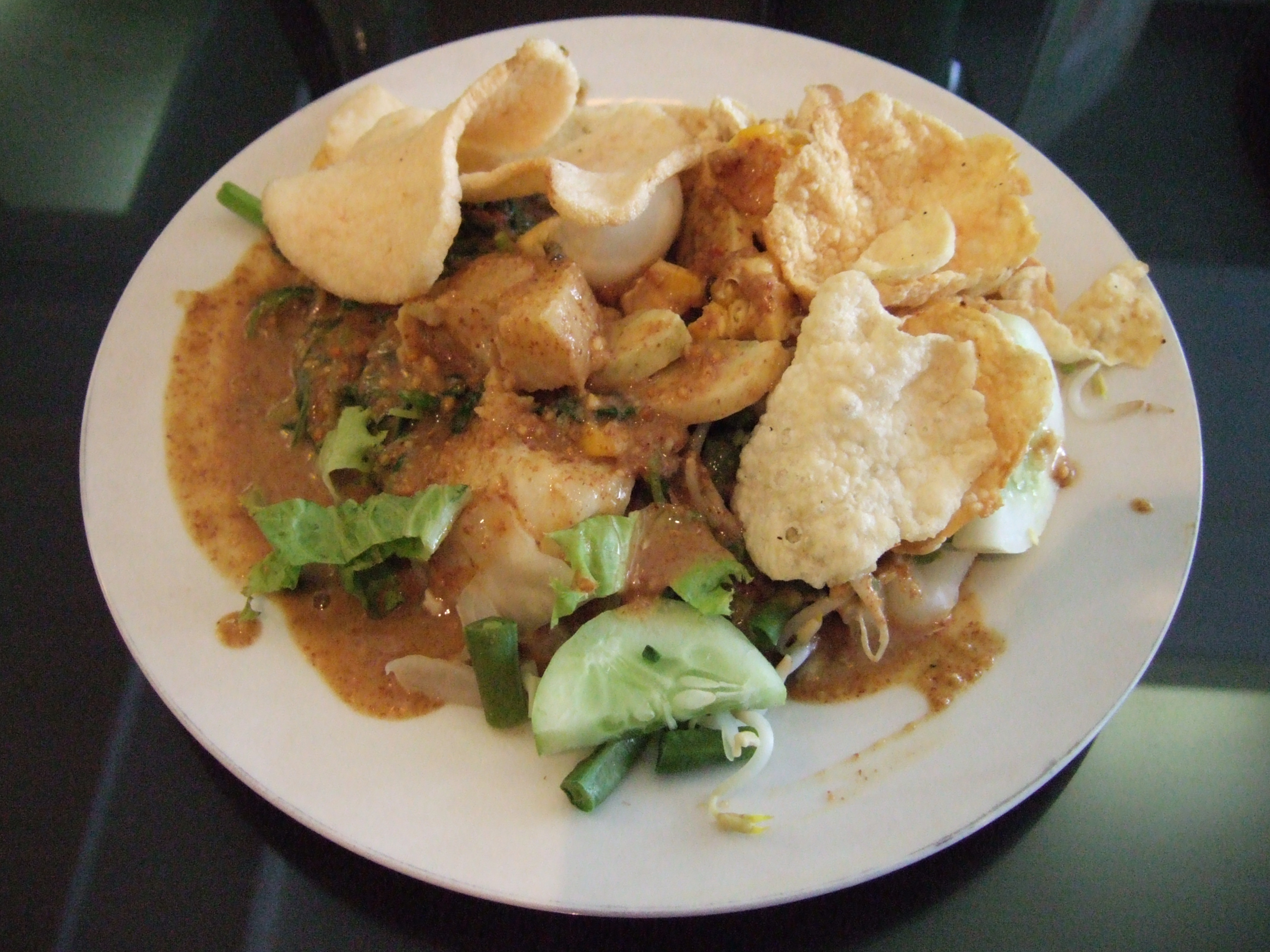 Gado-gado.